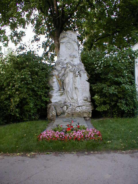 The tombstone of Johann Strauss II in Vienna